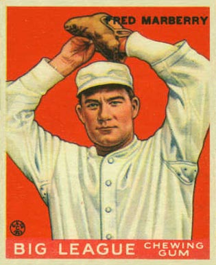 1933 Goudey baseball card of Fredrick "Firpo" Marberry of the Washington Senators #104. PD-not-renewed